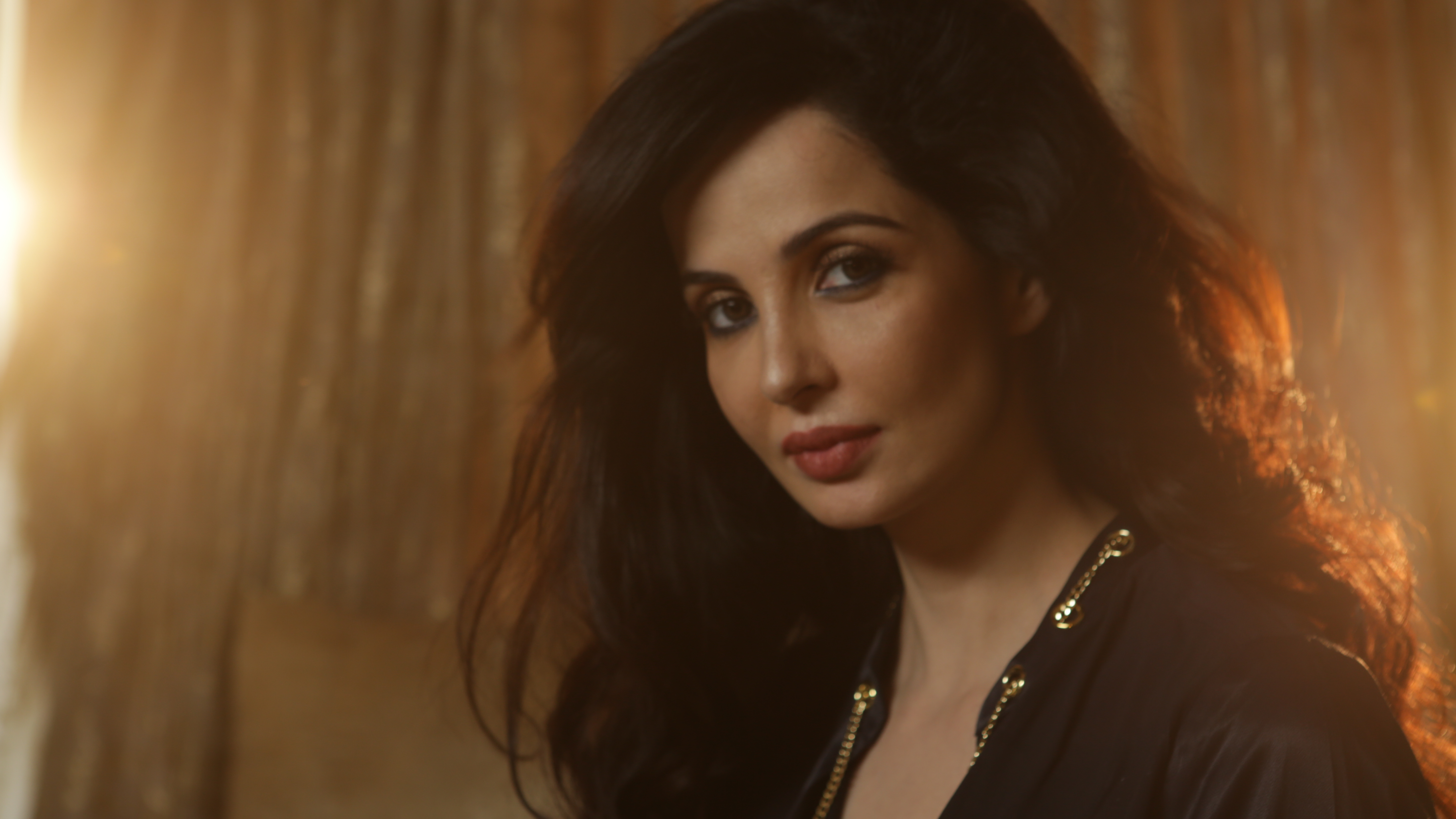 Picture from one her photoshoot